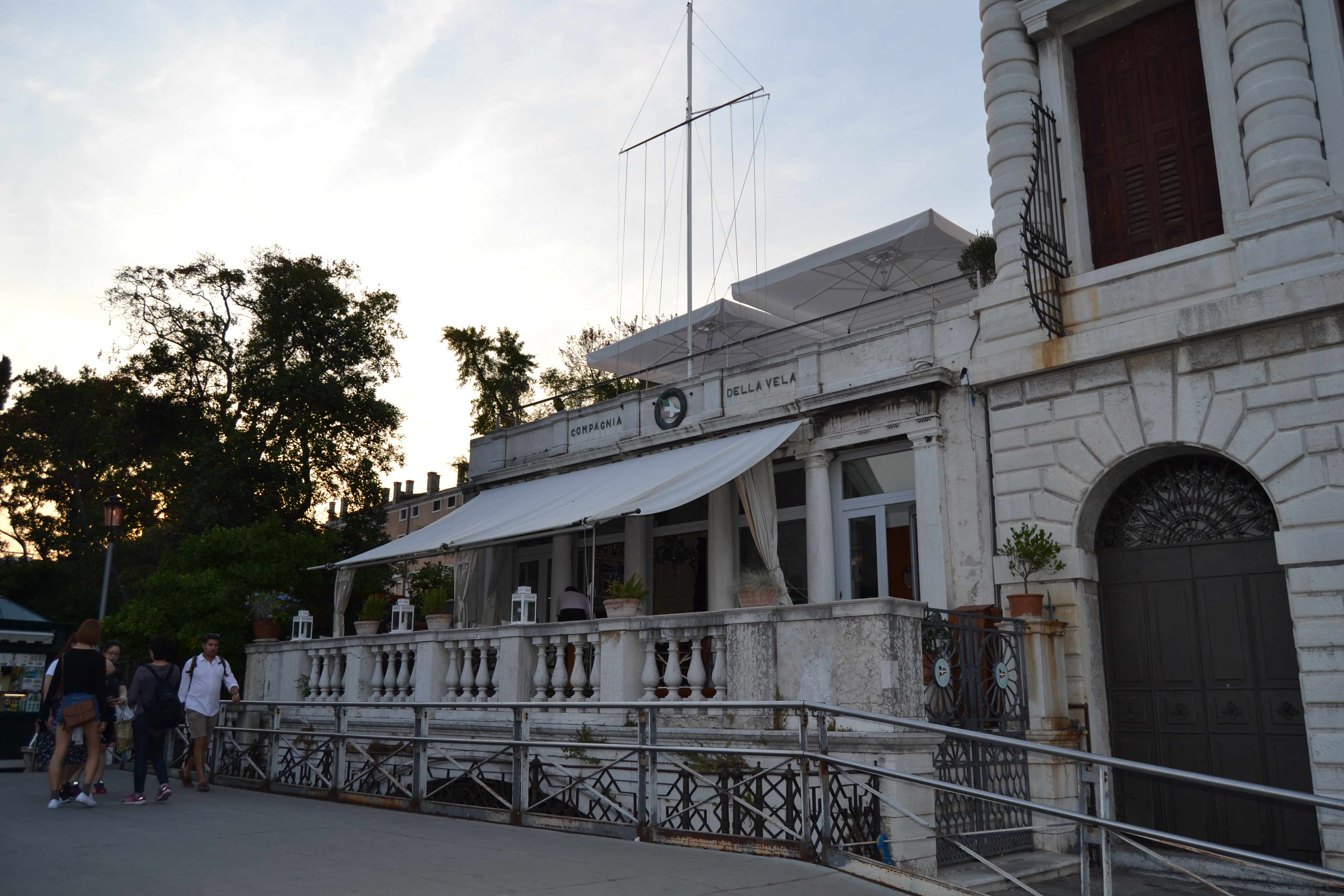 Clubhouse of Compagnia della Vela